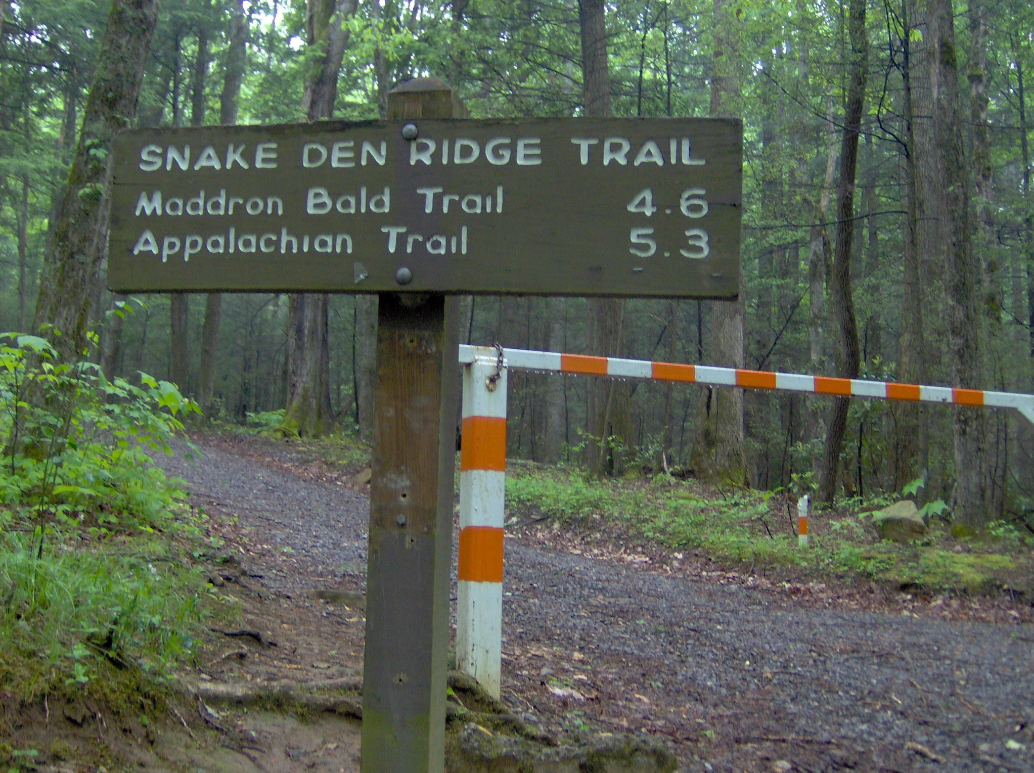 The Snake Den Ridge Trailhead in the Cosby section of the Great Smoky Mountains National Park, in the southeastern United States. The trail connects the Cosby Campground to the Appalachian Trail near the summit of Inadu Knob.